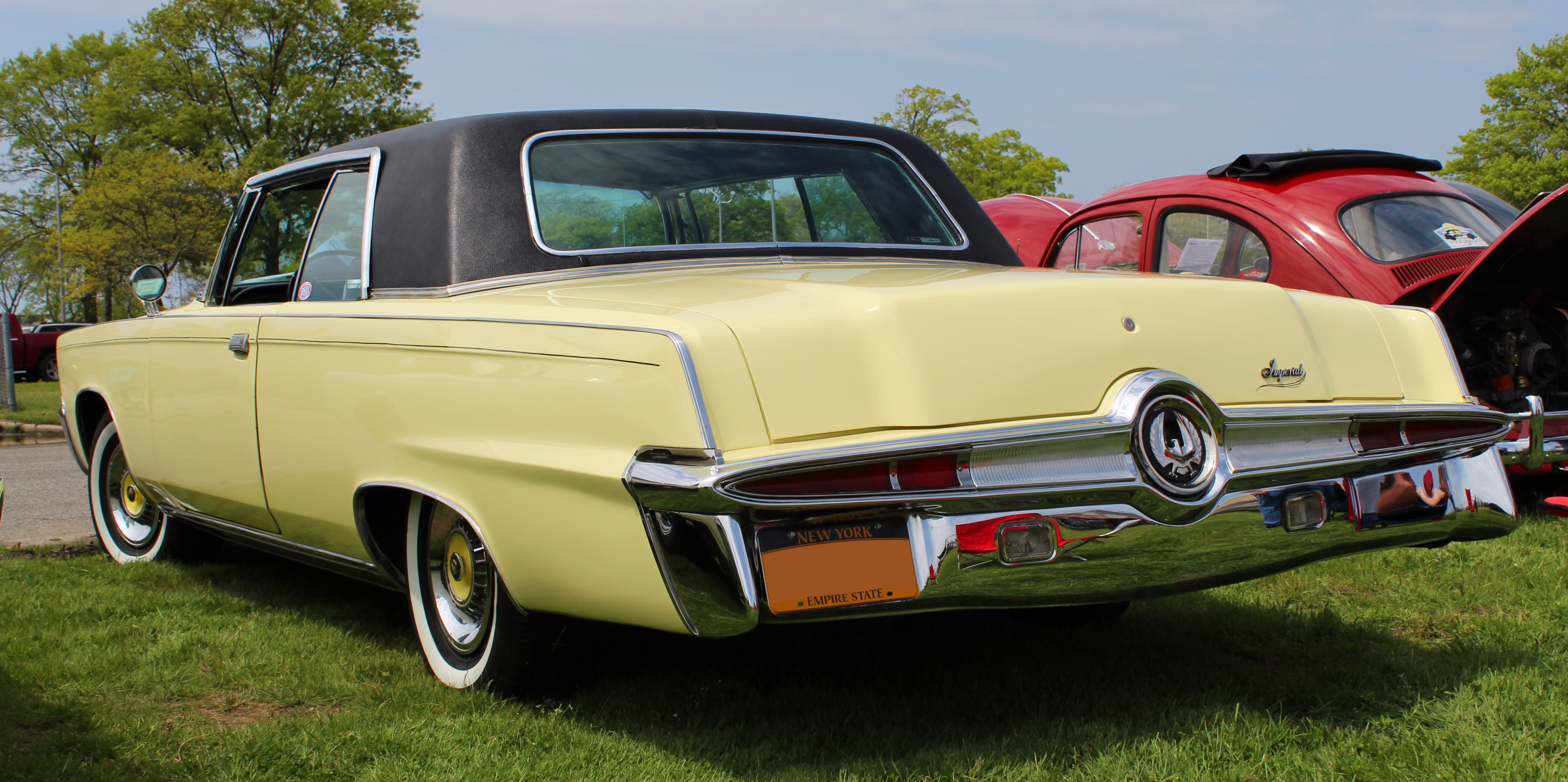 A 1966 Imperial Crown Coupe photographed during at a classic car show, in Merrick, New York, USA